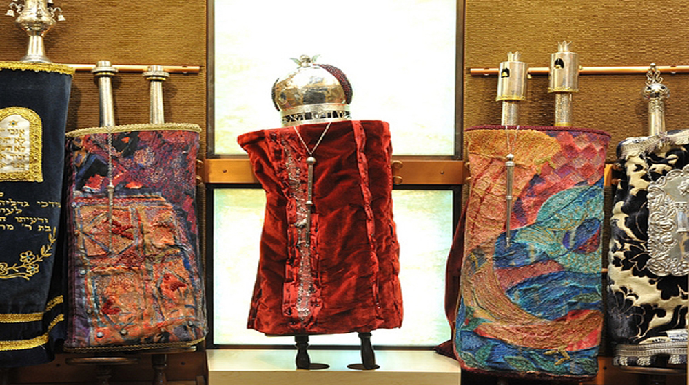 Torah scrolls in the Reconstructionist Synagogue of Montreal (Canada)